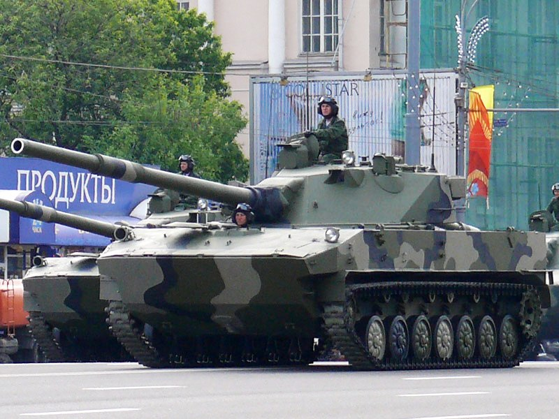 2S25 Sprut-SD.